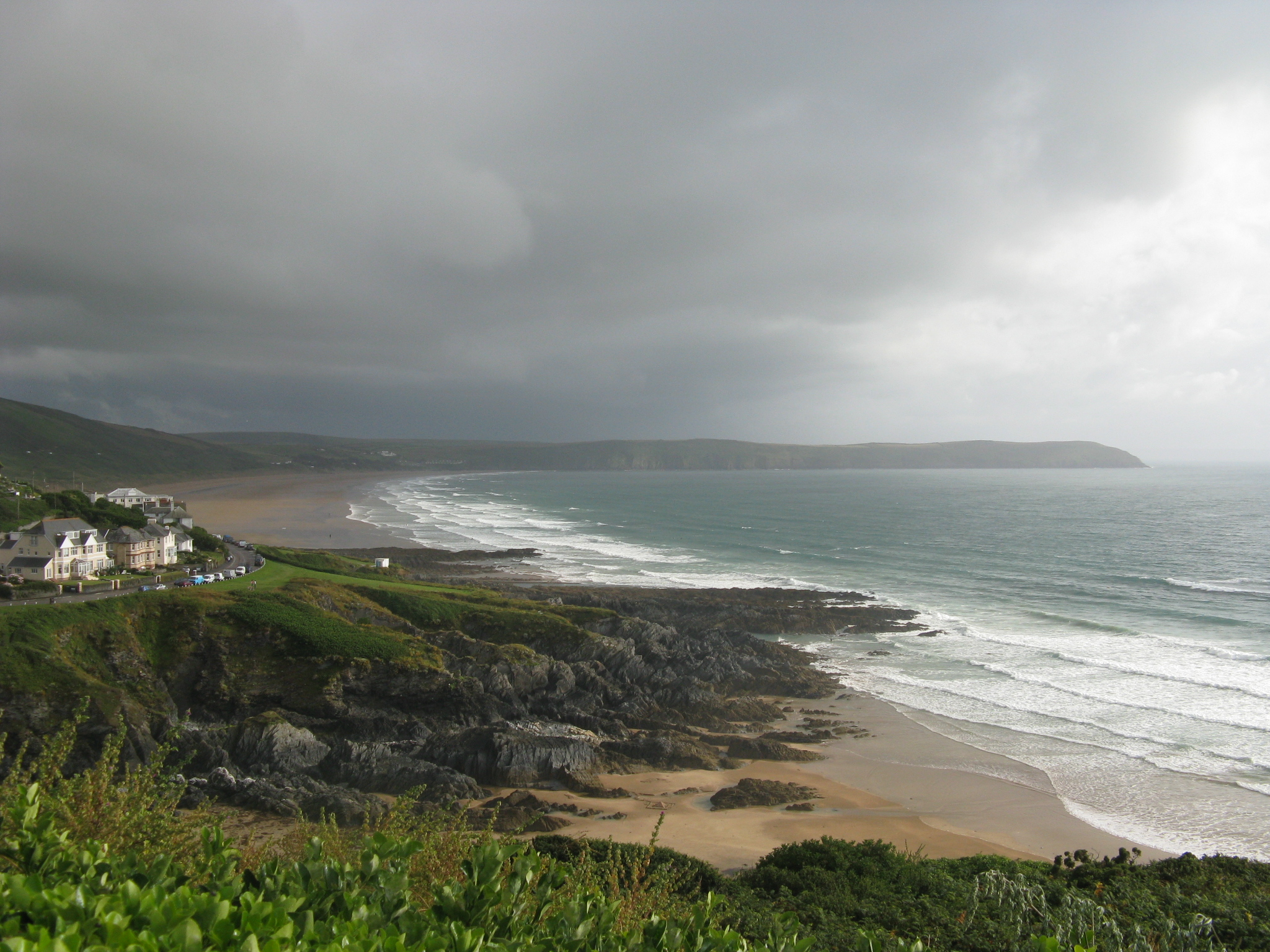 Woolacombe, Woolacombe Sands and Baggy Point (Devon, Great Britain)